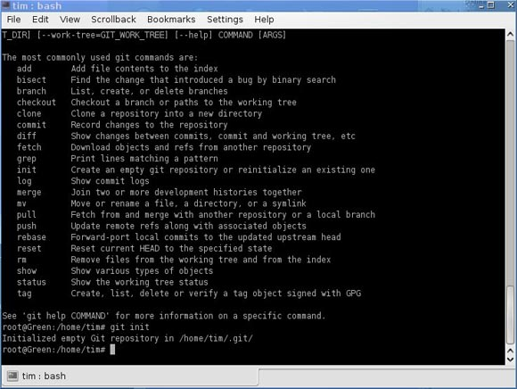 Console inteface for gitk